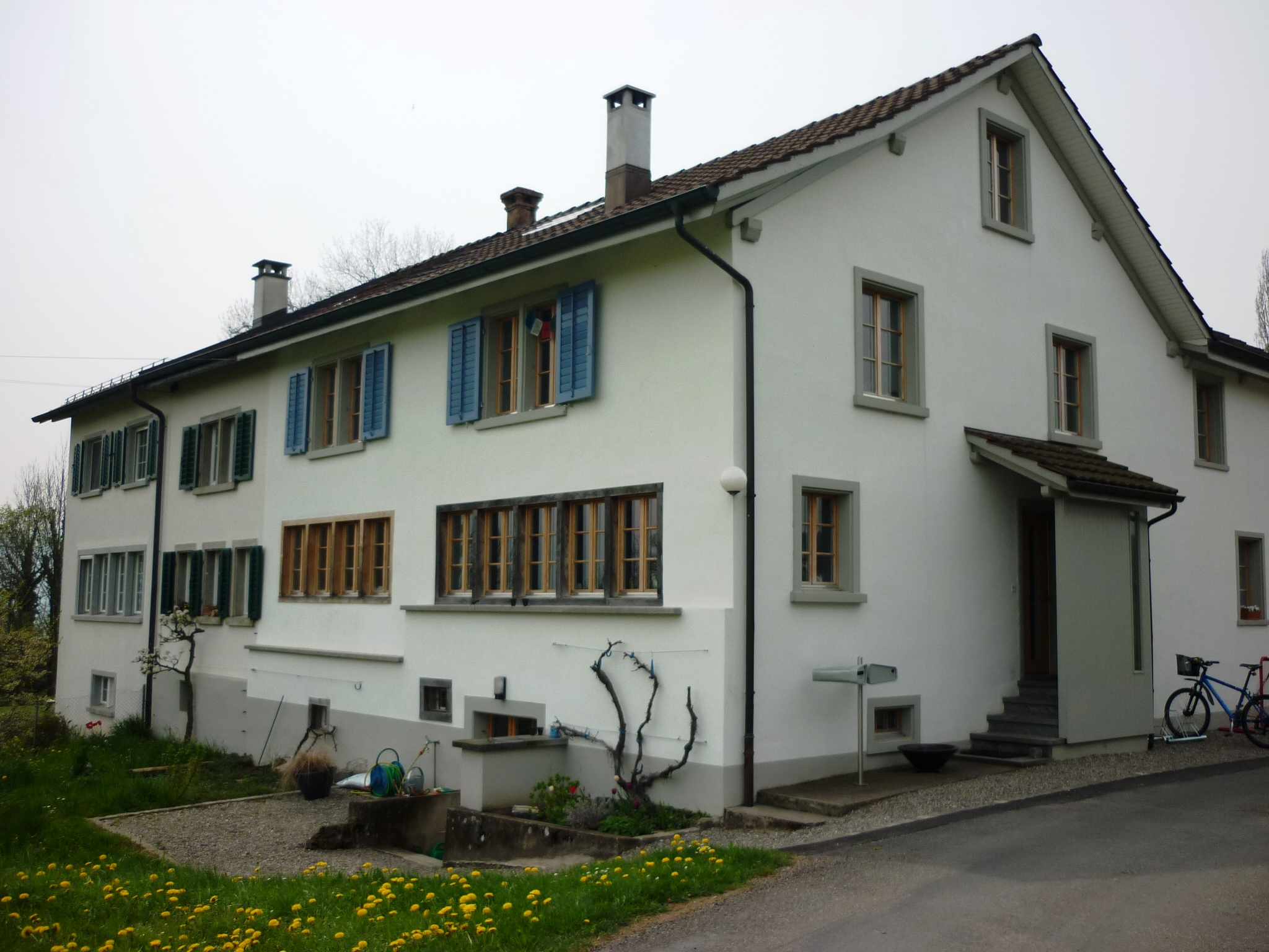 Old house, Hombrechtikon ZH, Switzerland